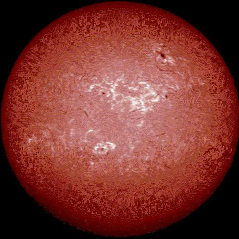 The chromosphere of the sun in H-alpha light, observed by the .